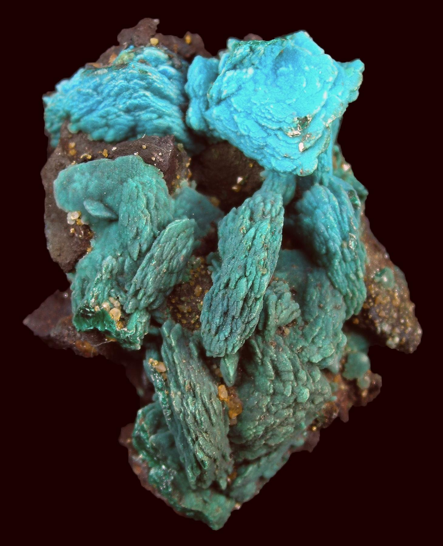 Azurite, Chrysocolla, Malachite Locality: Whim Creek Copper Mine (Whim Creek Copper prospect; Whim Well Mine), Whim Creek, Roebourne Shire, Pilbara Region, Western Australia, Australia (Locality at ) Size: miniature, 5.0 x 4.0 x 2.9 cm Chrysocolla ps.after Malachite after Azurite This is an old classic, rarely seen today! It is a DOUBLE PSEUDOMORPH, consisting of chrysocolla that replaced malachite, which itself replaced azurite blades. They come from the old Whim Well area of Australia. It is a beautiful, intense, deep blue color in person, though appears a few shades lighter in the photos for some reason